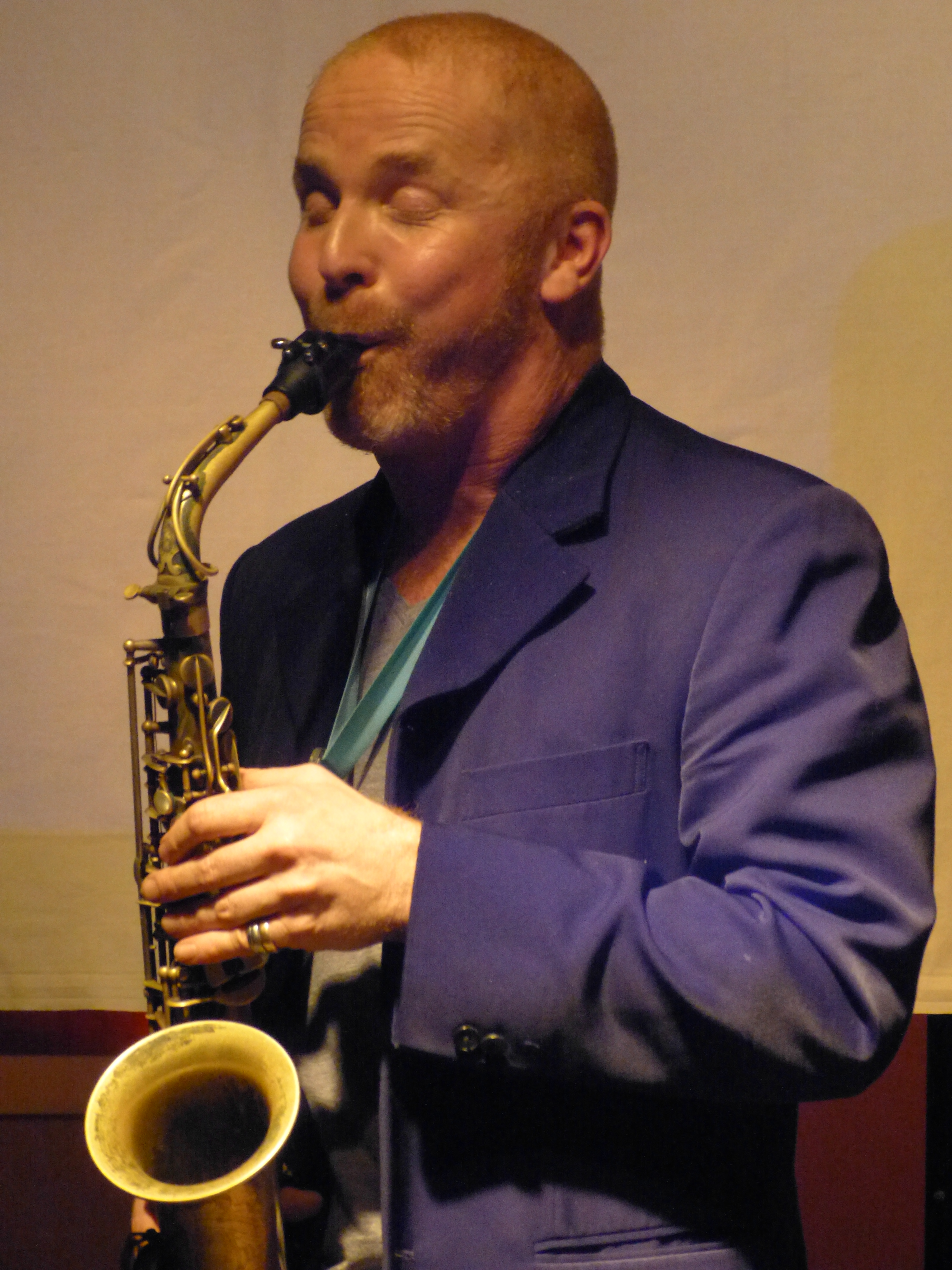 Hayden Chisholm in concert at Michael Rüsenberg's jazzcity.de show at Loft (Cologne), Germany, January 17th, 2014